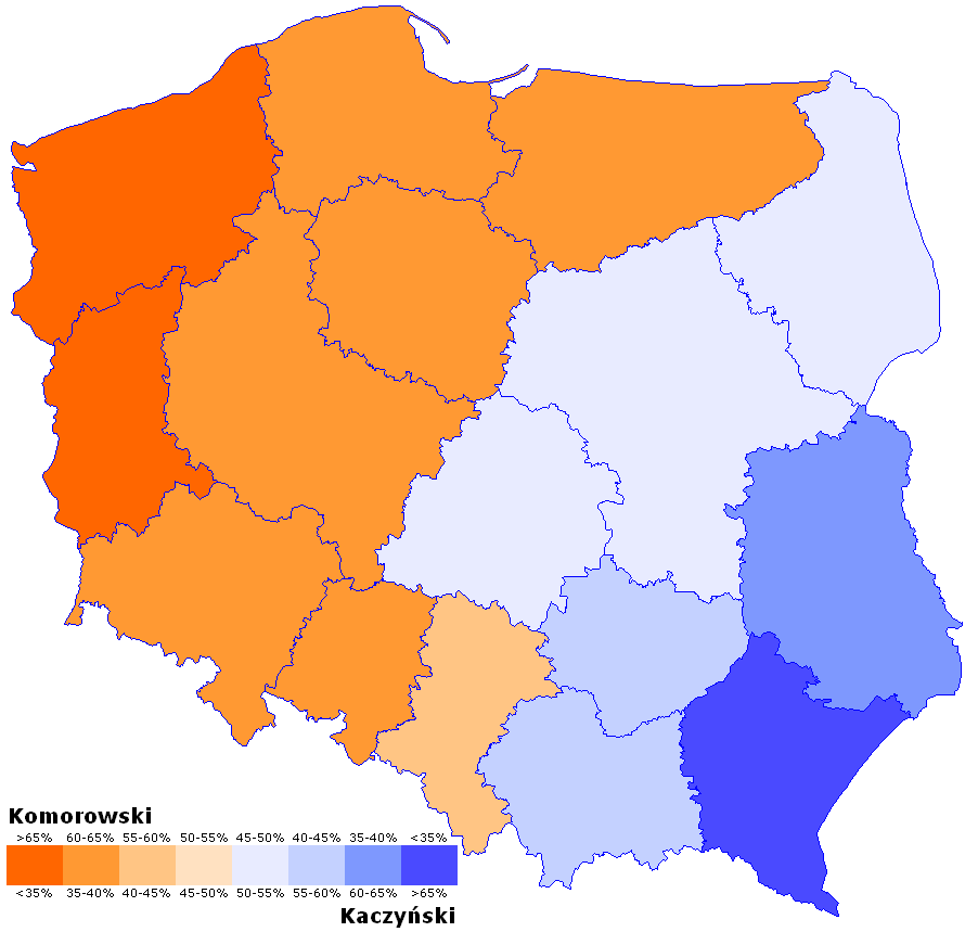 Polish presidential election, 2010 - results of the II round (4 July 2010) by voivodeships